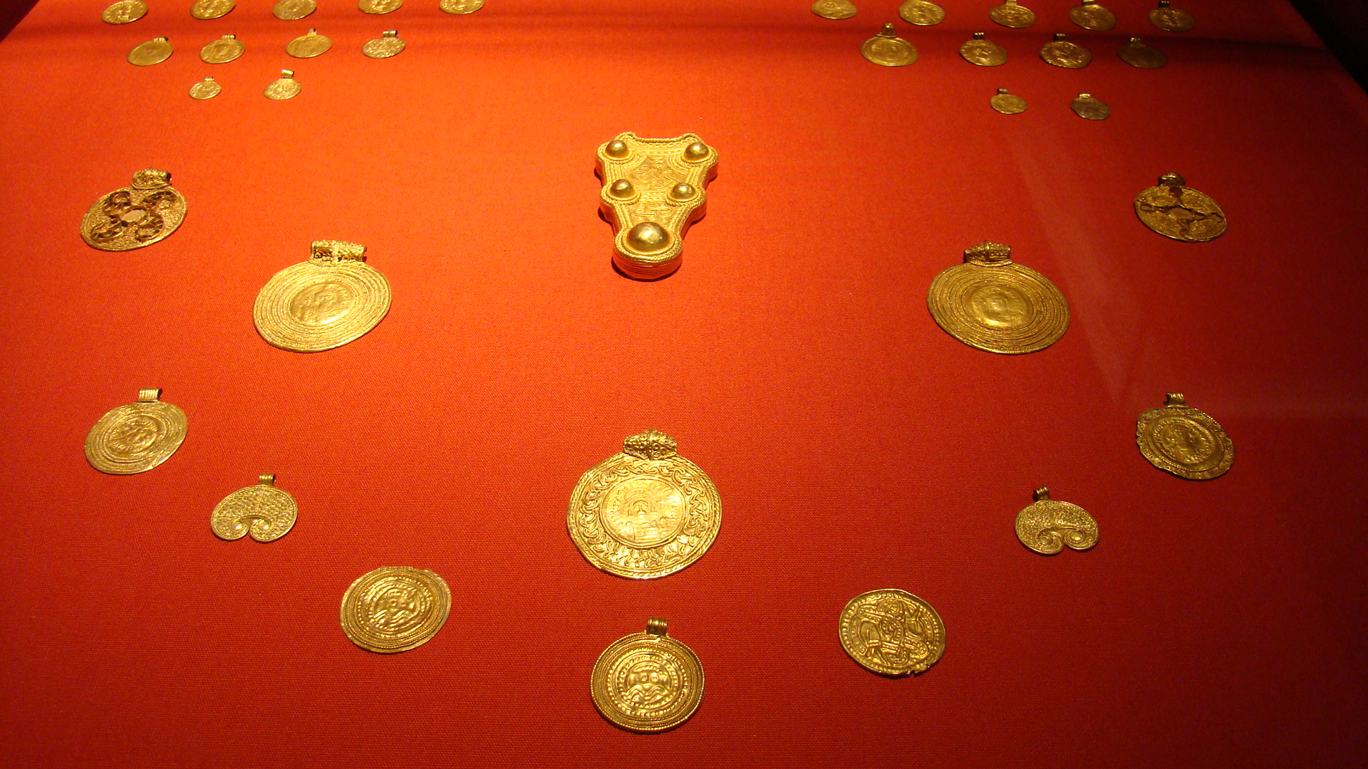 The Gold Treasure of Wiewerd, find from 1866 in a mound. The treasure consists of a fibula, rings and earrings. In the bracteates, Roman coins have been processed. The coins are other Justinian from the 6th century. Rijksmuseum Leiden.